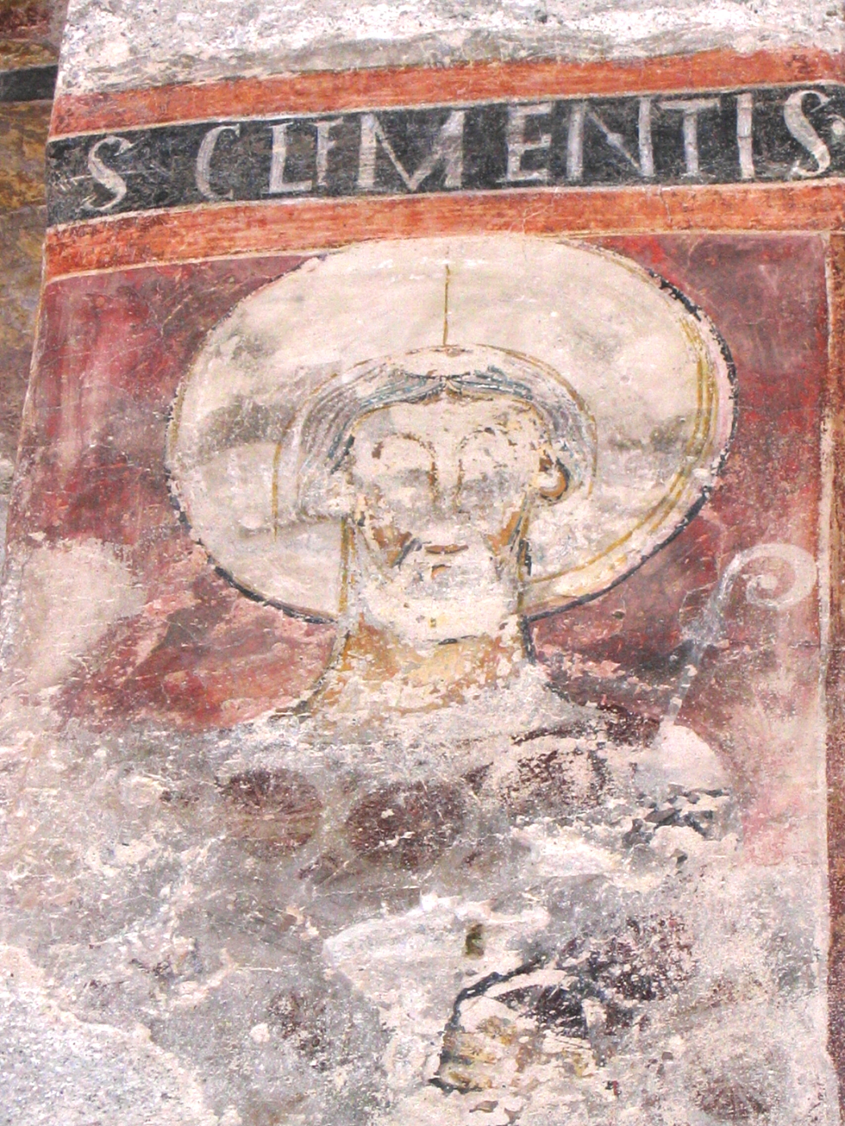 Sant Climent of Taüll church. Remains of original painting